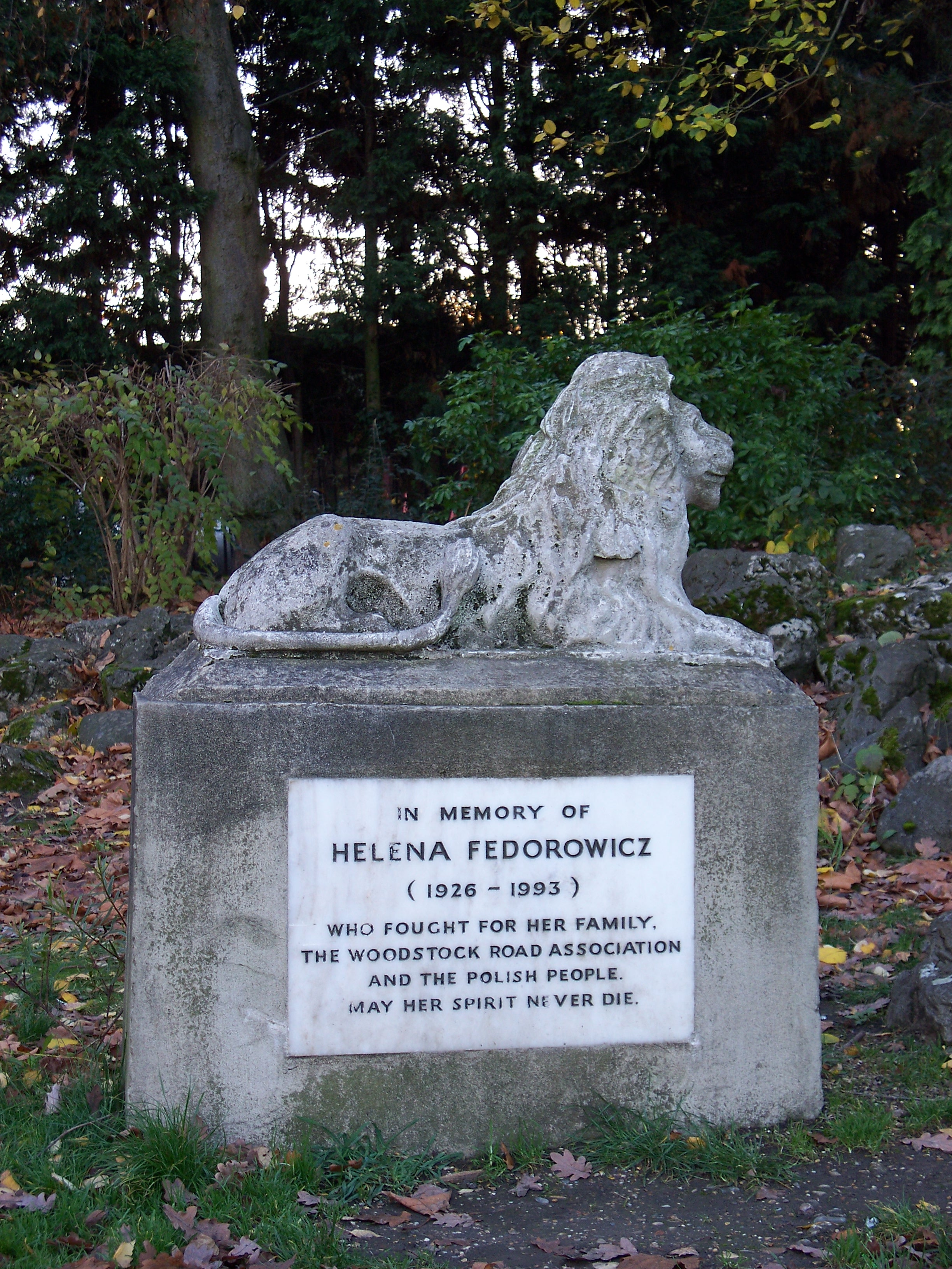 Memorial to Helena Fedorowicz, Finsbury Park, London